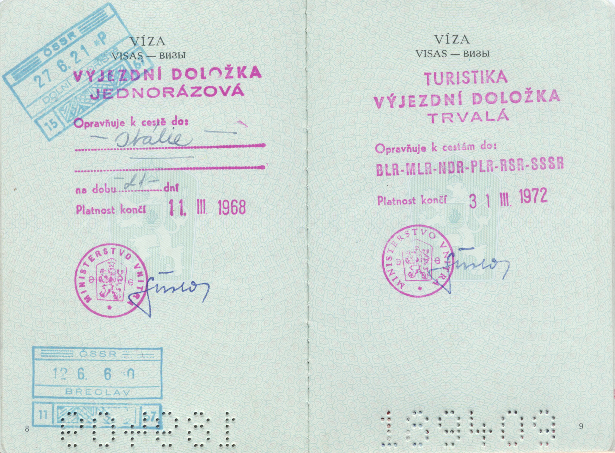 Výjezdní doložka - (Exit permission) in the passport of communist Czechoslovakia in 1967 - key instrument of communist limitation (or non-existence) of the freedom of travel. On the left single trip permission to Italy, on the right multiple trip permission to Warsaw Pact Countries (all abbreviated there)